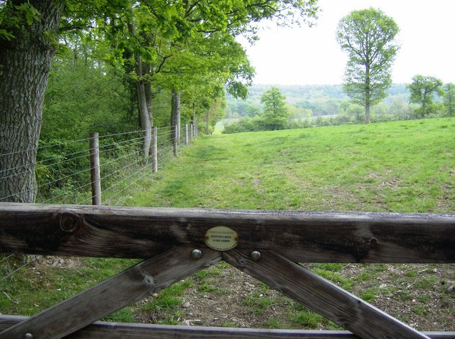 235 miles from home This gate in Somerset bears the plaque of its maker Calders and Grandidge in Boston Lincolnshire. That is significant to the Macmillan Way walker who has started from that very town 235 miles and 15 days previously. The picture looks east into Stavordale Wood. The 1:25K map shows both sides of the path wooded, although the 1:50K map unusually shows it more accurately as just the north side.